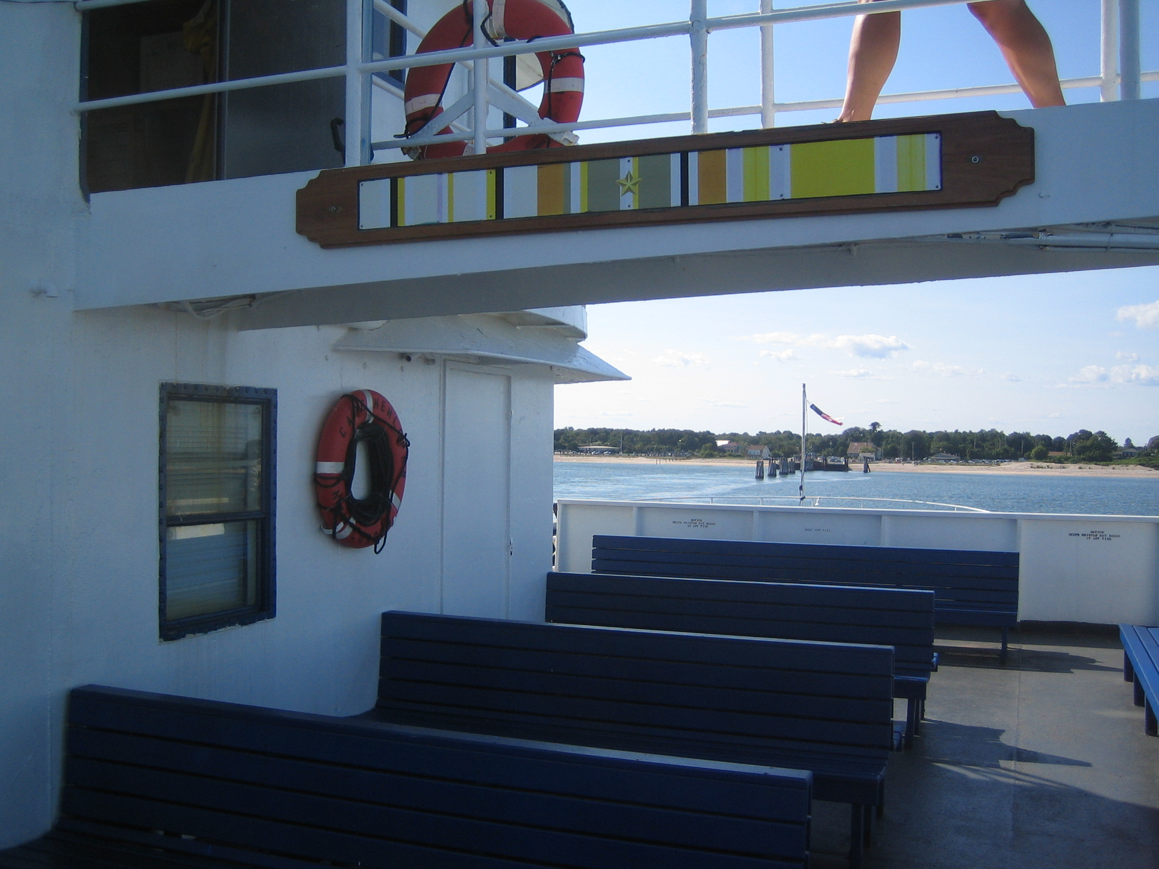 This is a photo of the service bar on USS-LST-510, Buncombe County, by Mark Ameres